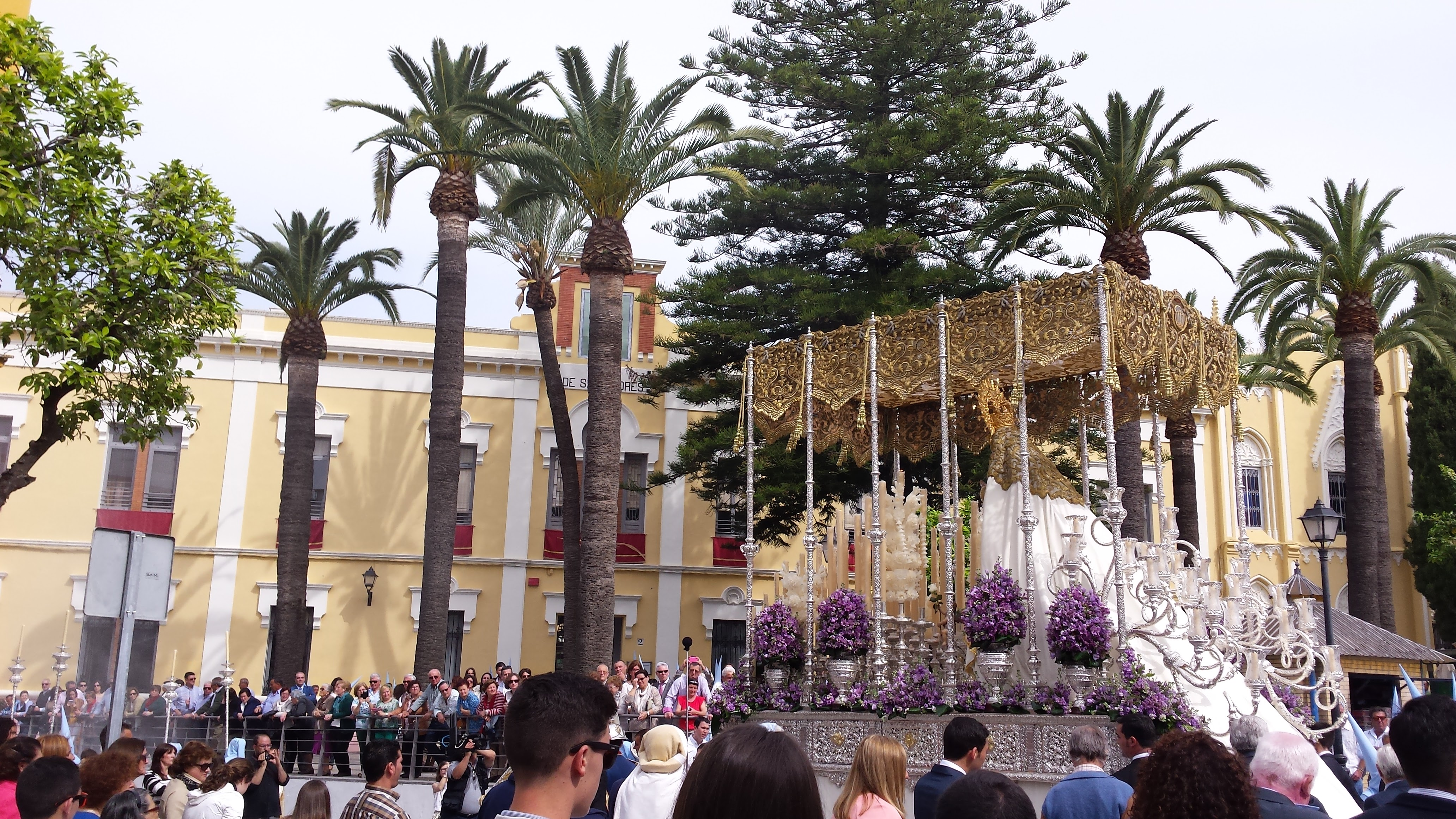 The Holy Week is a very important religious festivity in Lebrija, in which 10 brotherhoods march around the streets of the town. The 'pasos' have sculptures of The Passion of Christ, and they are carried by 'costaleros', the men in charge of being under the platforms to move the whole thing. Behind each 'paso' there is a marching band playing. The procession -which is around 6 hours long- also includes 'penitentes', members of the brotherhood dressed up with picturesque traditional clothes. Each brotherhood has one or two 'pasos', but some have as far as four. In this picture you can see the Virgen de la Consolación 'paso', from the Vera Cruz brotherhood, whose procession takes place the Holy Friday morning. This photo has been taken in the country: Spain